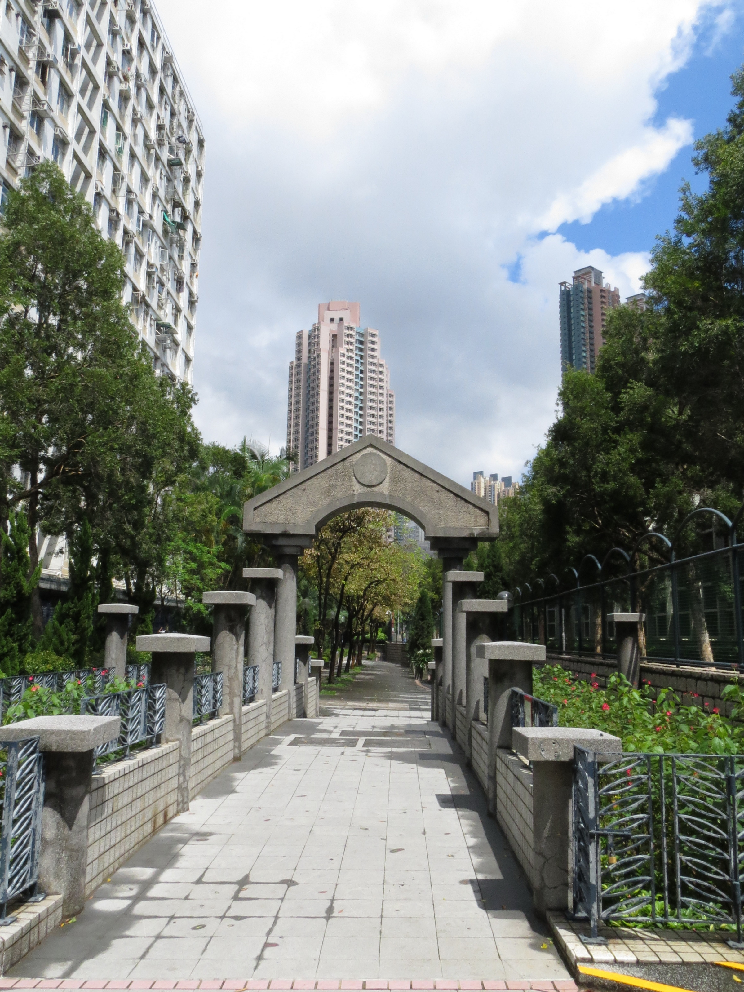 Tung Chau Street Park, Sham Shui Po, Kowloon, Hong Kong. Nam Cheong Estate Block 6 Cheong Chit House is on the left.